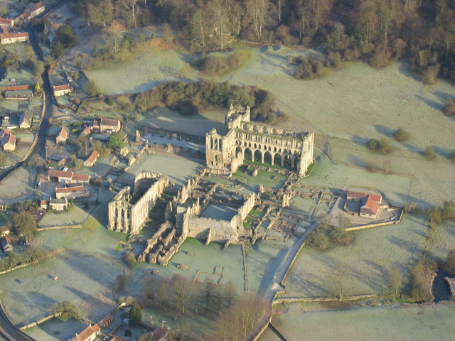 Aerial shot of Rievaulx Abbey in winter Taken at 1500ft from my microlight aircraft.